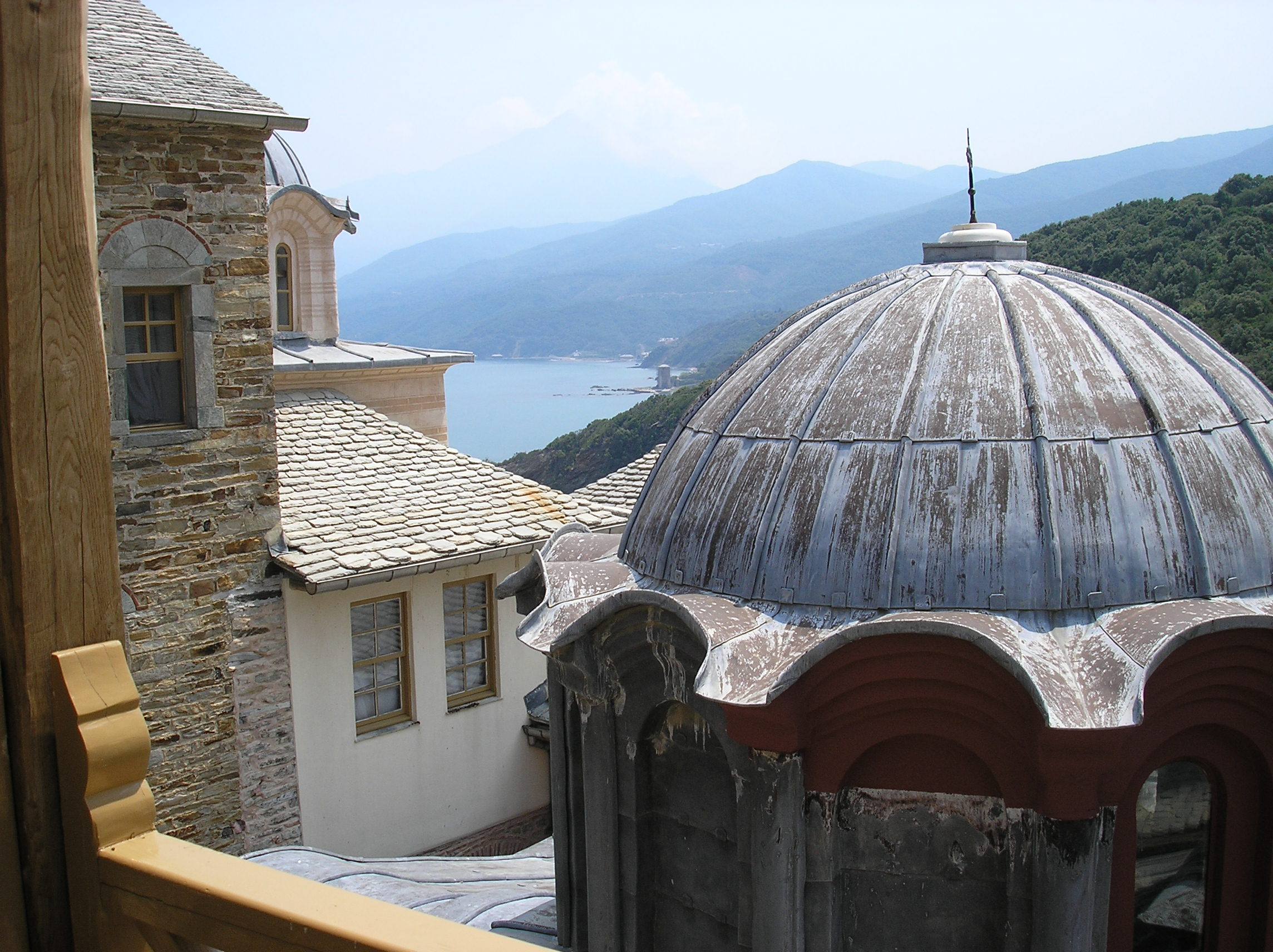 Stavronikita monastery at Mount Athos, Greece. View from the interior. At the foreground is the dome of the catholicon and at the background the anchorage of Iviron monastery and the peak of Athos. Photo taken by Thodoris Lakiotis, August 2006. Posted under GFDL with his permission.